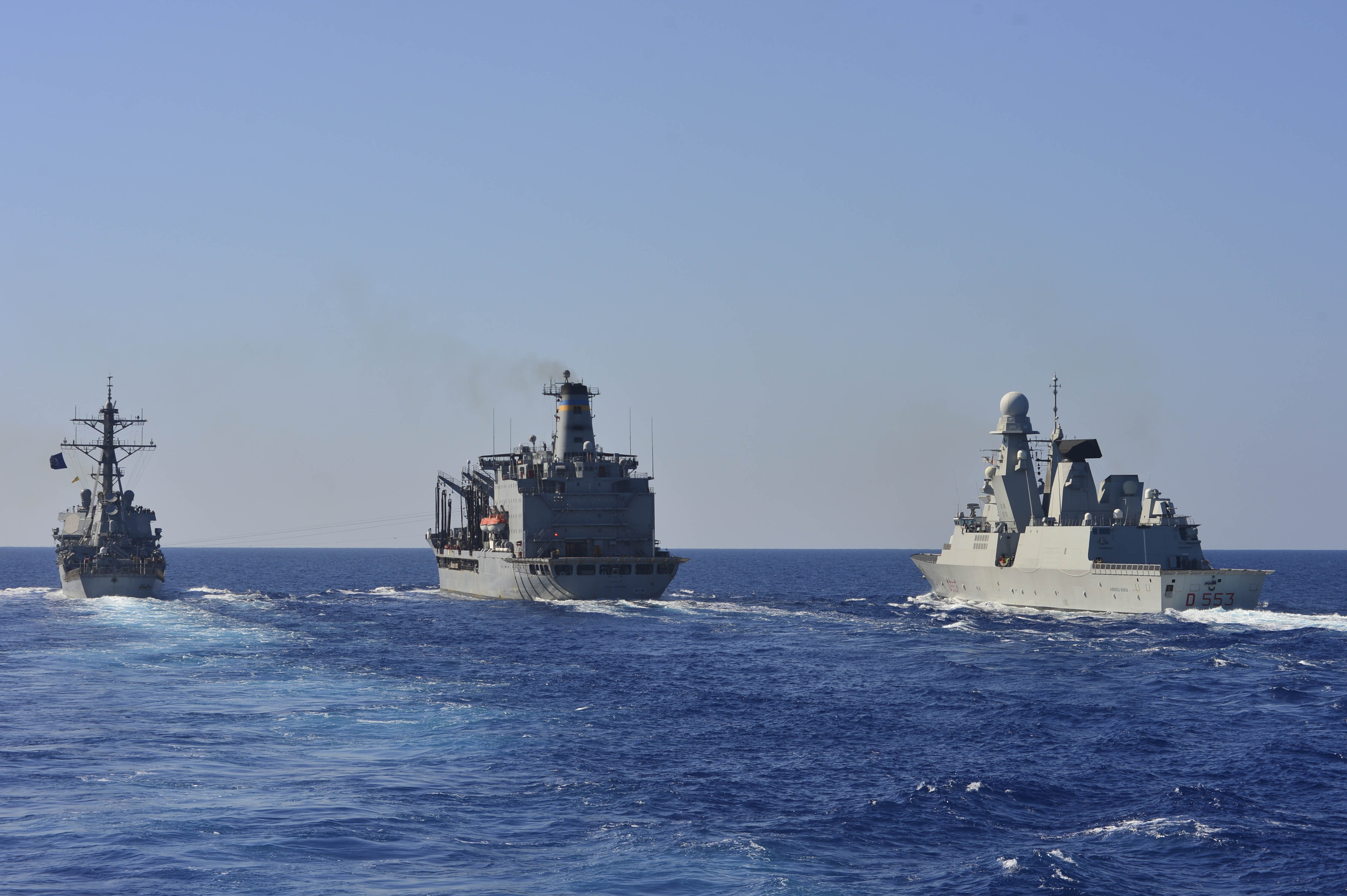 Mediterranean Sea – The Italian navy destroyer Andrea Doria (DD 553) approaches the Military Sealift Command fleet replenishment oiler USNS Leroy Grumman (T-AO 195) for a replenishment-at-sea. USS Monterey (CG-61) is visible to the left of USNS Leroy Grumman.